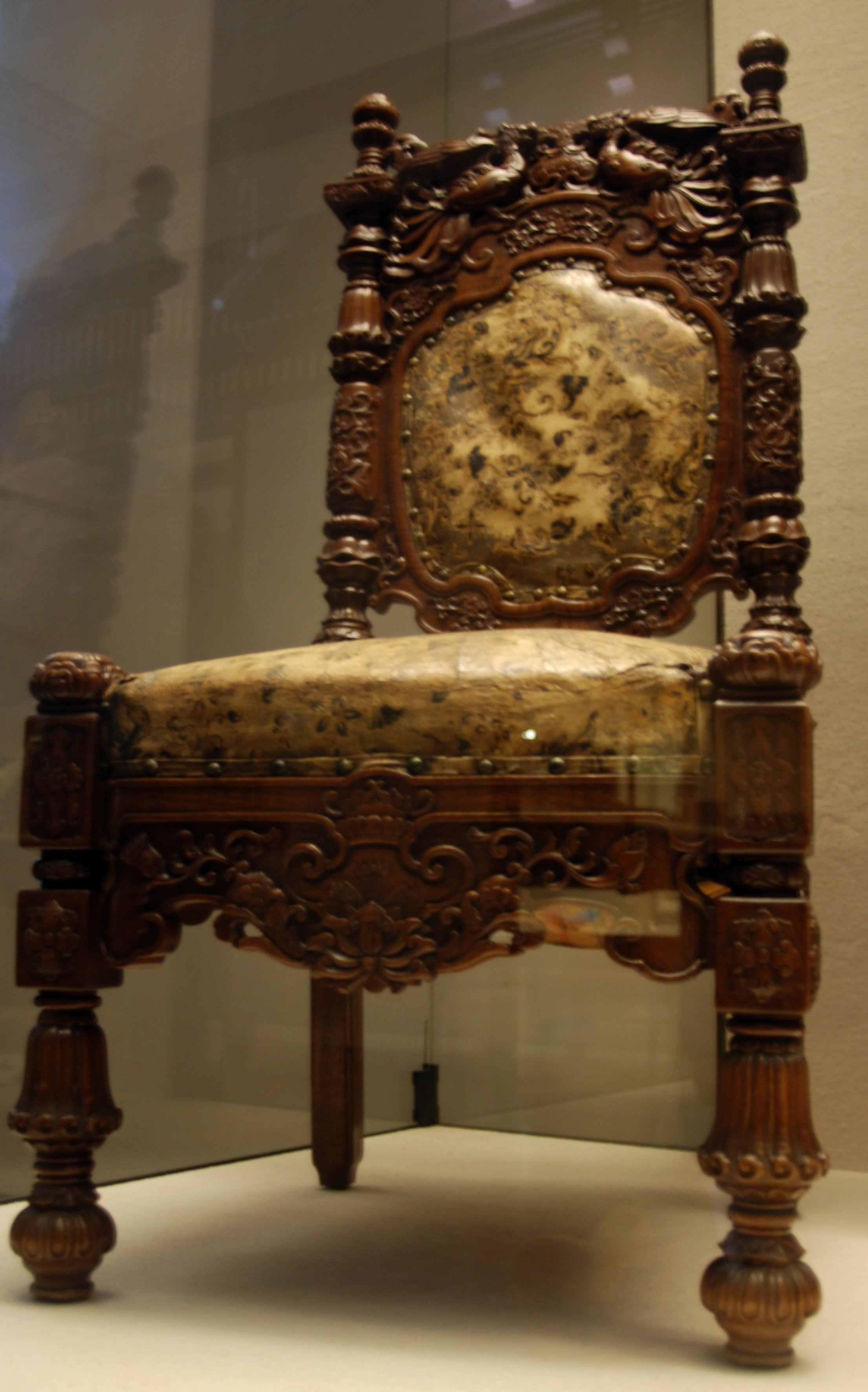 Chair Carved Zelkora wood with stencilled leather upholstery Japanese, c.1870 Museum no. FE.548-1992 Wikipedia Loves Art at the Victoria and Albert Museum This photo of item # [1] at the Victoria and Albert Museum was contributed under the team name "drakr" as part of the Wikipedia Loves Art project in February 2009. Victoria and Albert Museum The original photograph on Flickr was taken by Niecieden—please add a comment to the original Flickr page whenever a use has been made on Wikipedia or another project. Project galleries on Flickr: this institution, this team